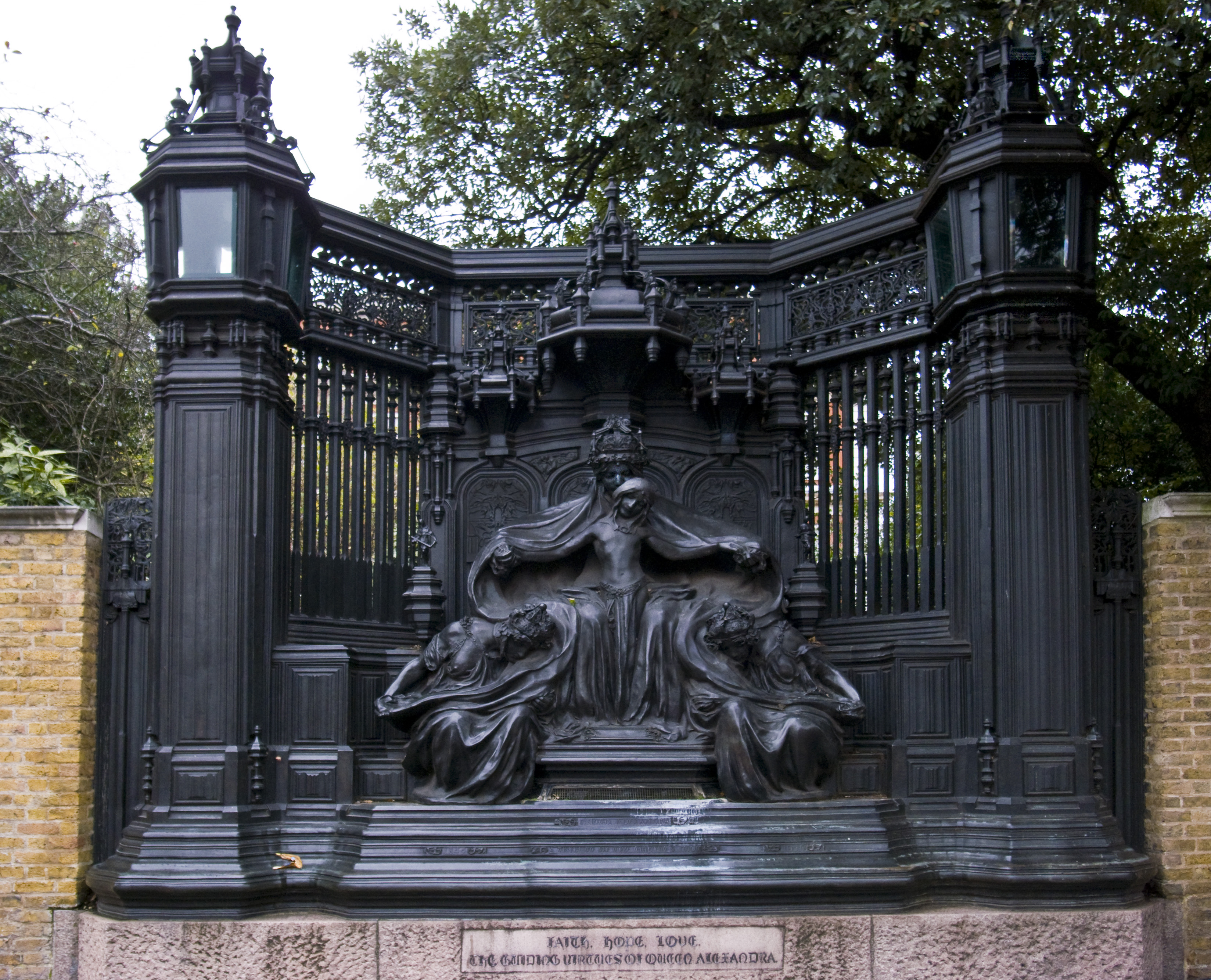 The memorial to Queen Alexandra opposite St. James's Palace, Marlborough Road, London, England. Enhanced for detail and perspective.